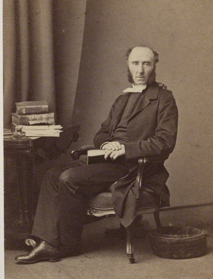 by Unknown photographer, albumen carte-de-visite, 1860s